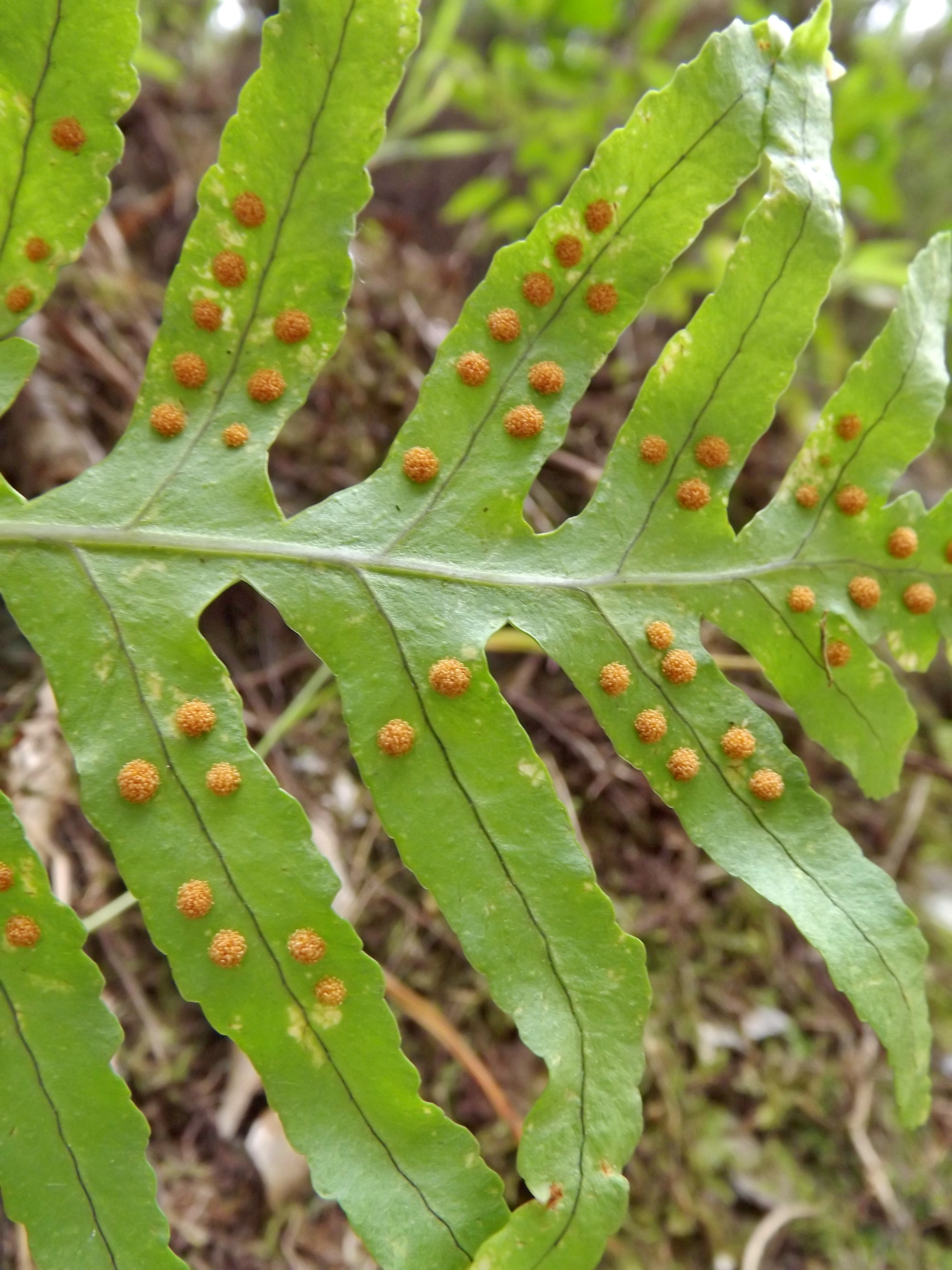 Polypodium macaronesicum, detail of sori, Los Tilos,La Palma (Spain)